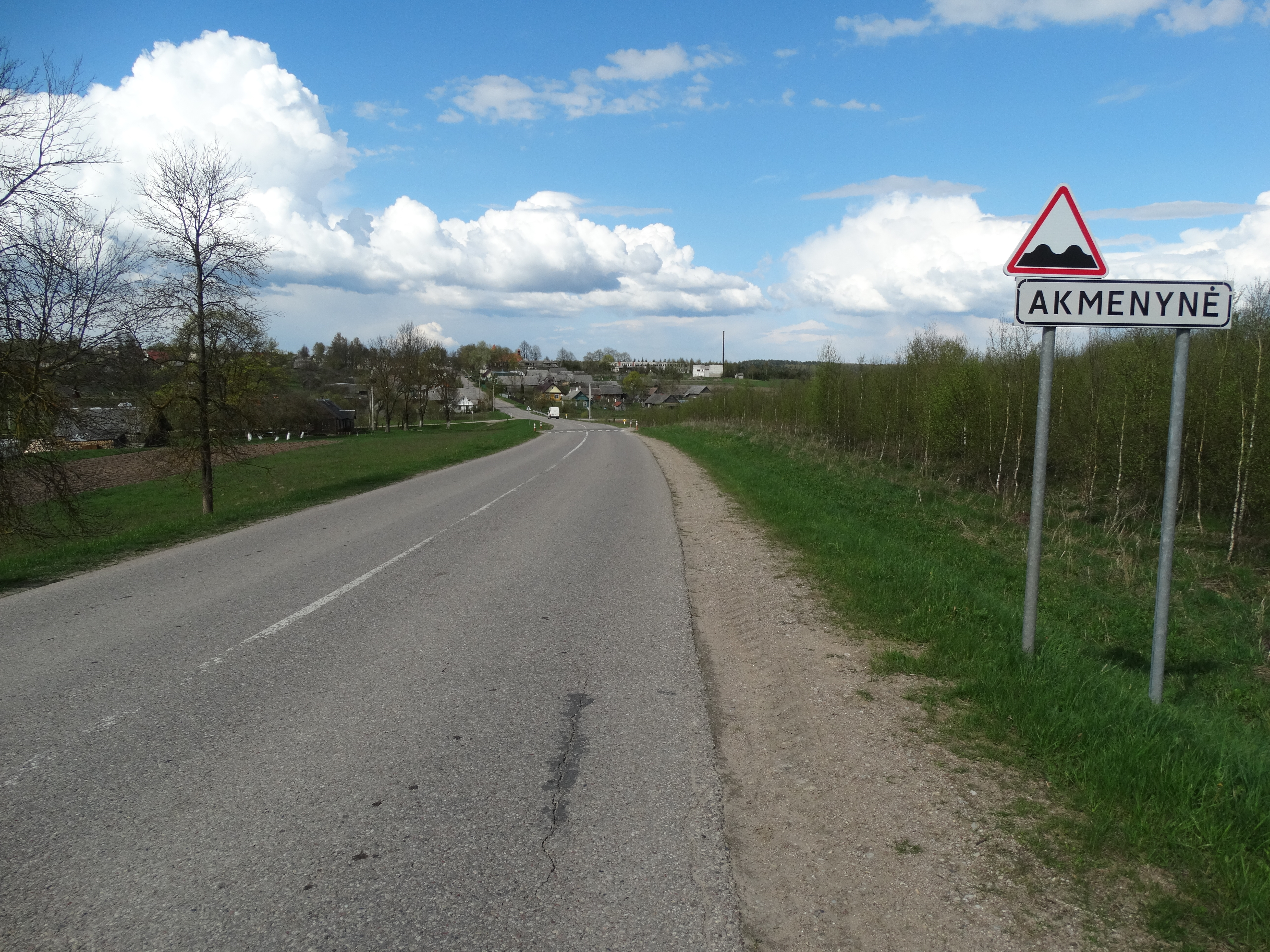 Akmenynė, Šalčininkai District, Lithuania